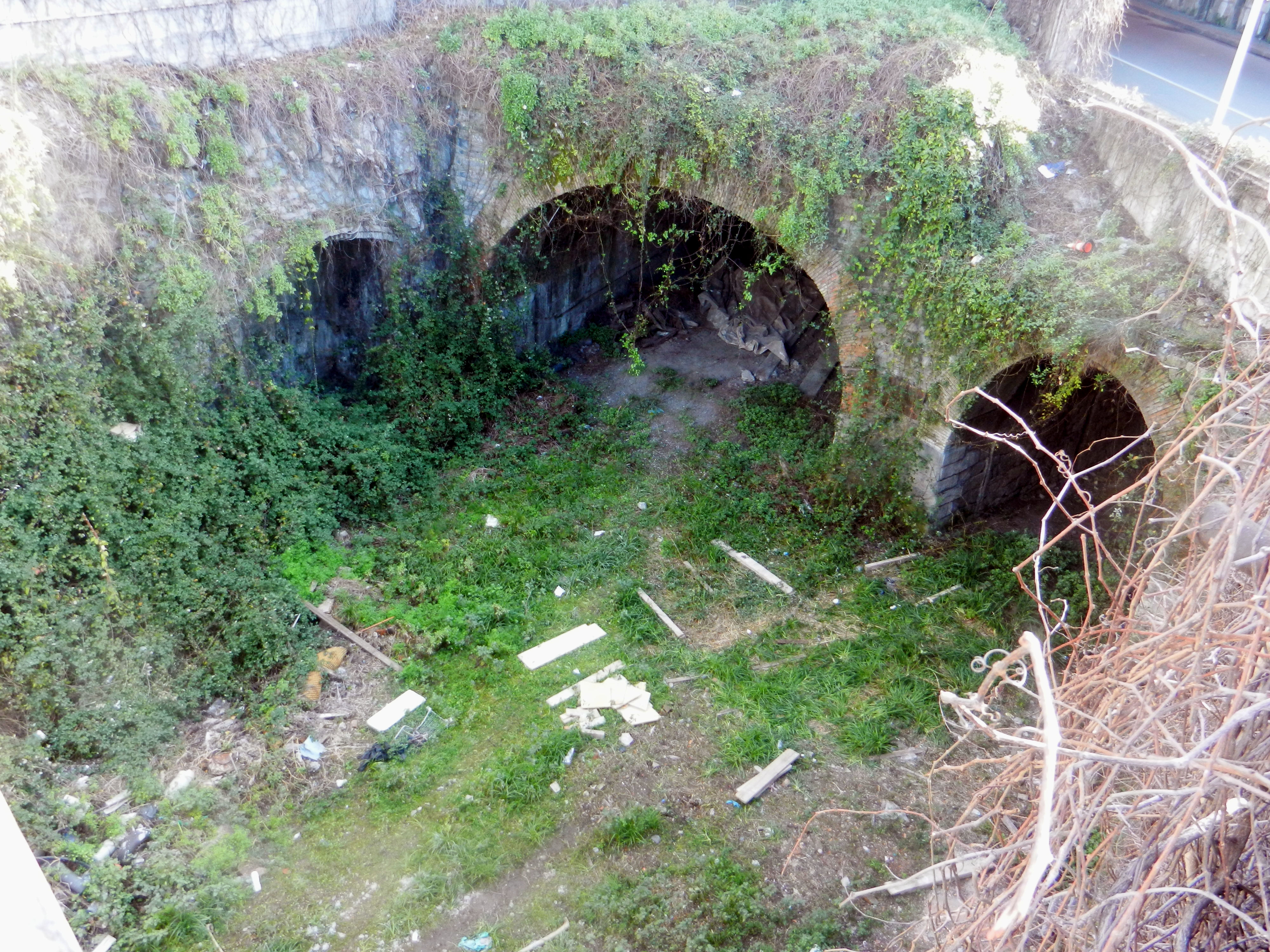 Genoa, Italy, quarter of Sampierdarena, the western entrances of the disused Coscia railway tunnels, which connected the industrial center of Sampierdarena with the harbour